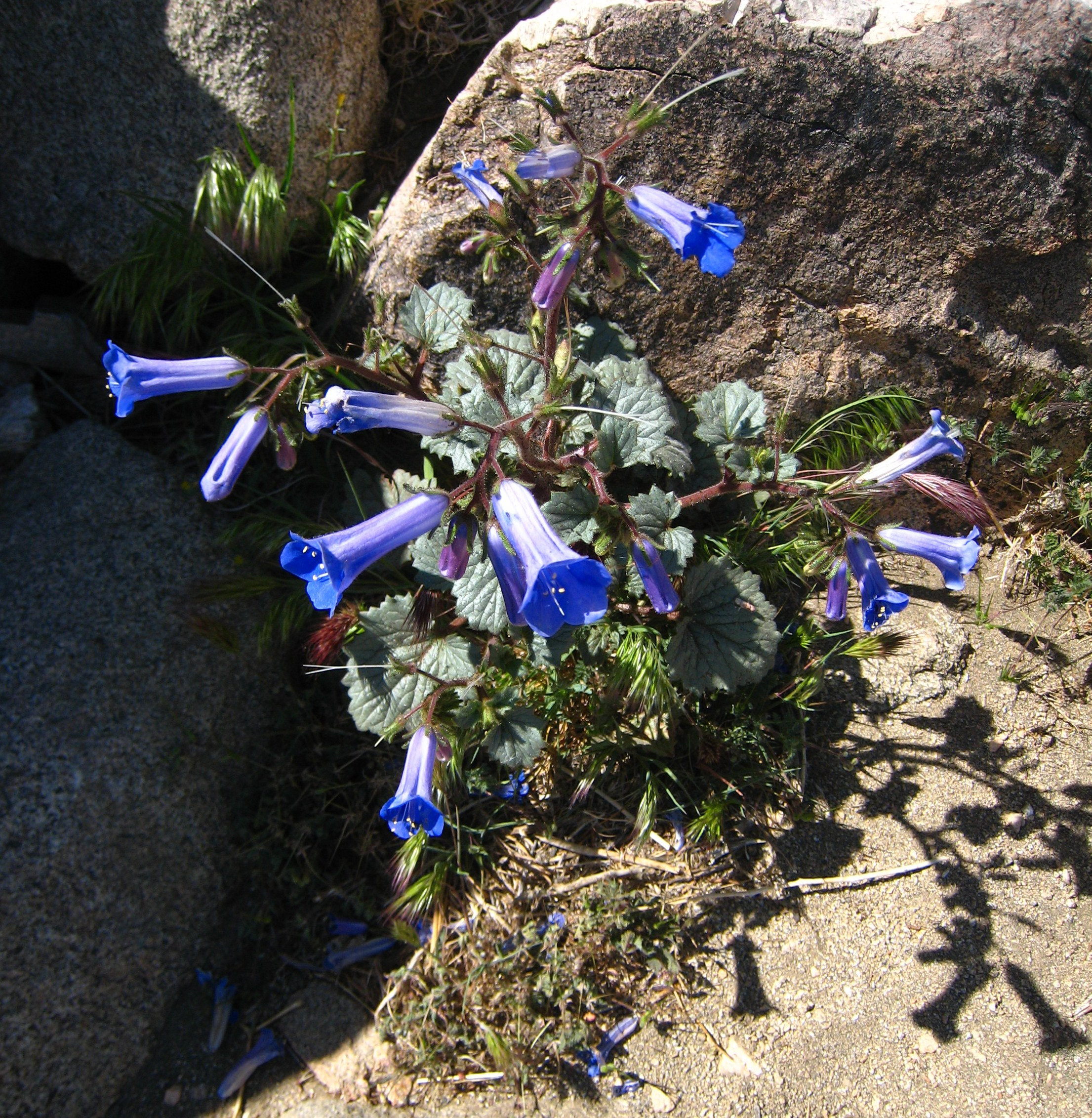 California bluebell, Phacelia campanularia ssp. vasiformis, photographed at Joshua Tree National Park, CA, USA.